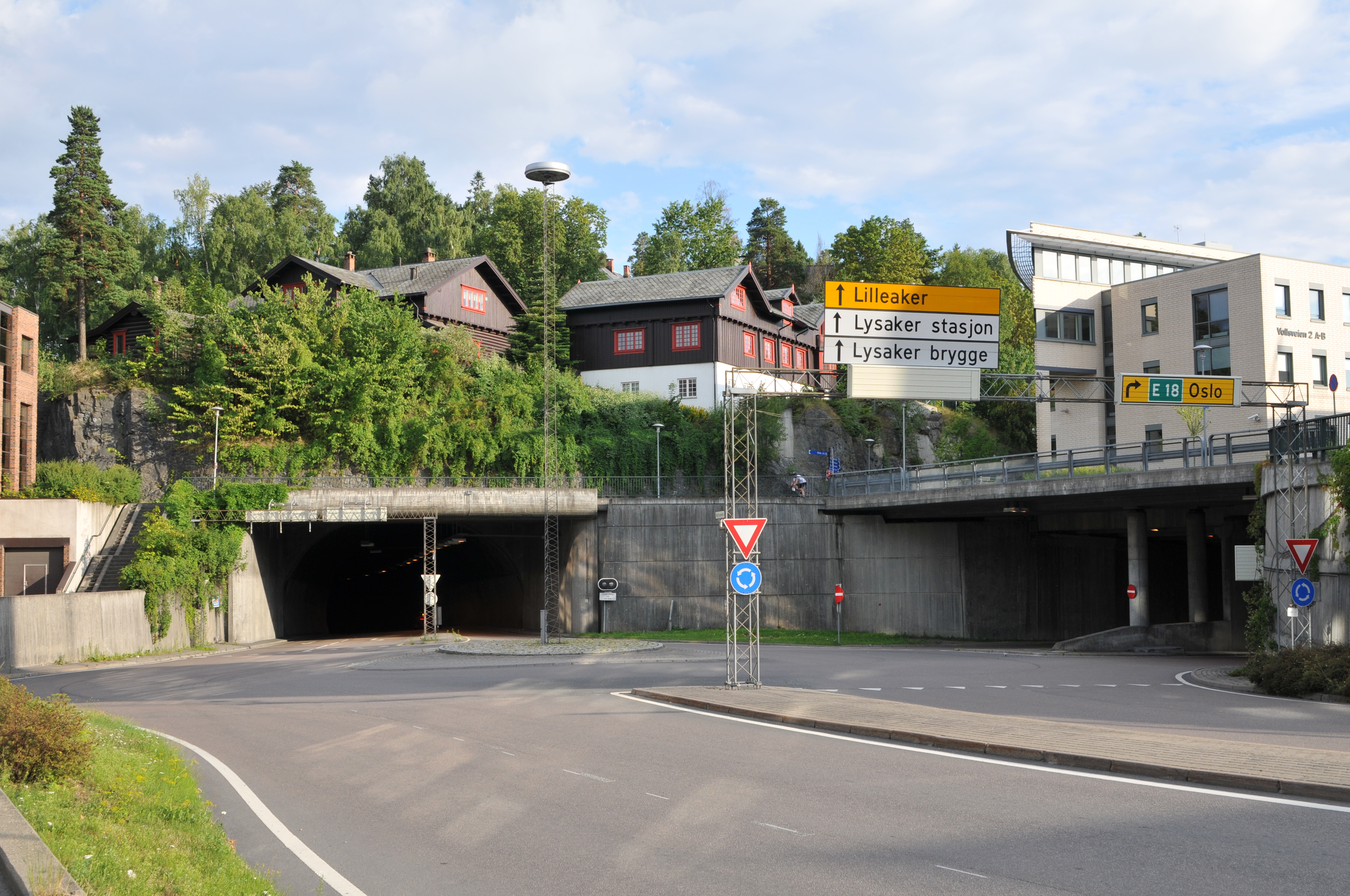 Strandveitunellen from Lysakerlokket side